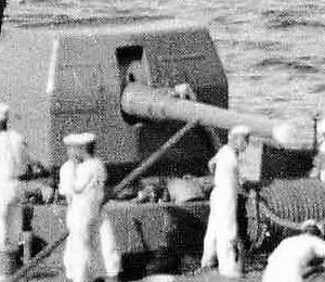 Closeup photograph of forward 120-mm gun on IJN destroyer Yūnagi.